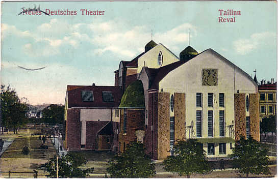 Estonian Drama Theatre building in 1911.